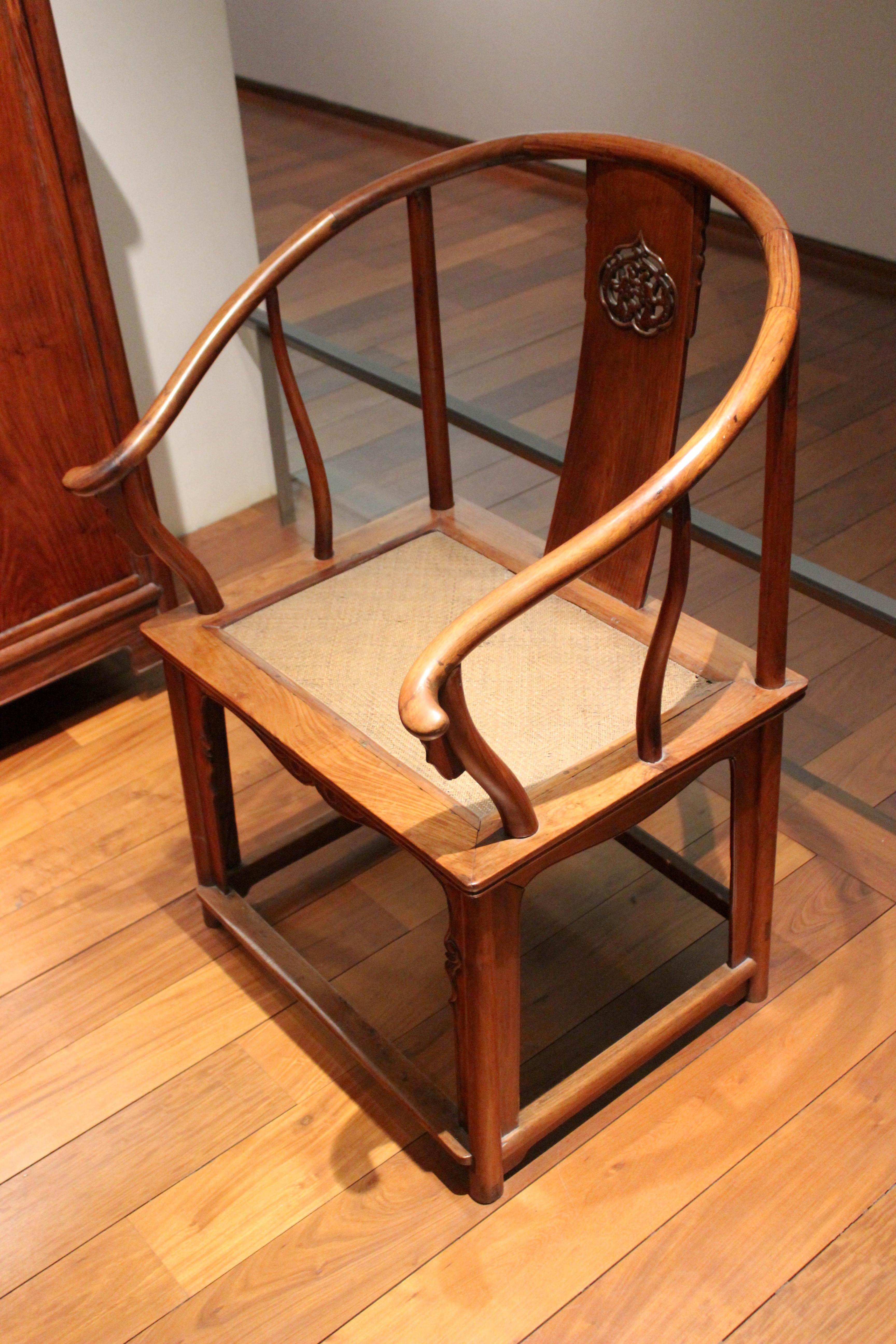 Pair of armchairs with folder in literary cap guanmaoyi . China, late 16th - early 17th. Ming Dynasty. Wood of huanghuali . Acquisition 2004. Don Philippe De Backer. "In total, there are 33 elements of" huanghuali "wood with a basketry seat that make up each armchair.This compact but ergonomic morphology perfectly illustrates the literate art on a daily basis, without emphasis or affectation, clean, especially in the Jiangnam region during the Wanli era (1573-1619) ": Cartel musée Guimet. Paris.